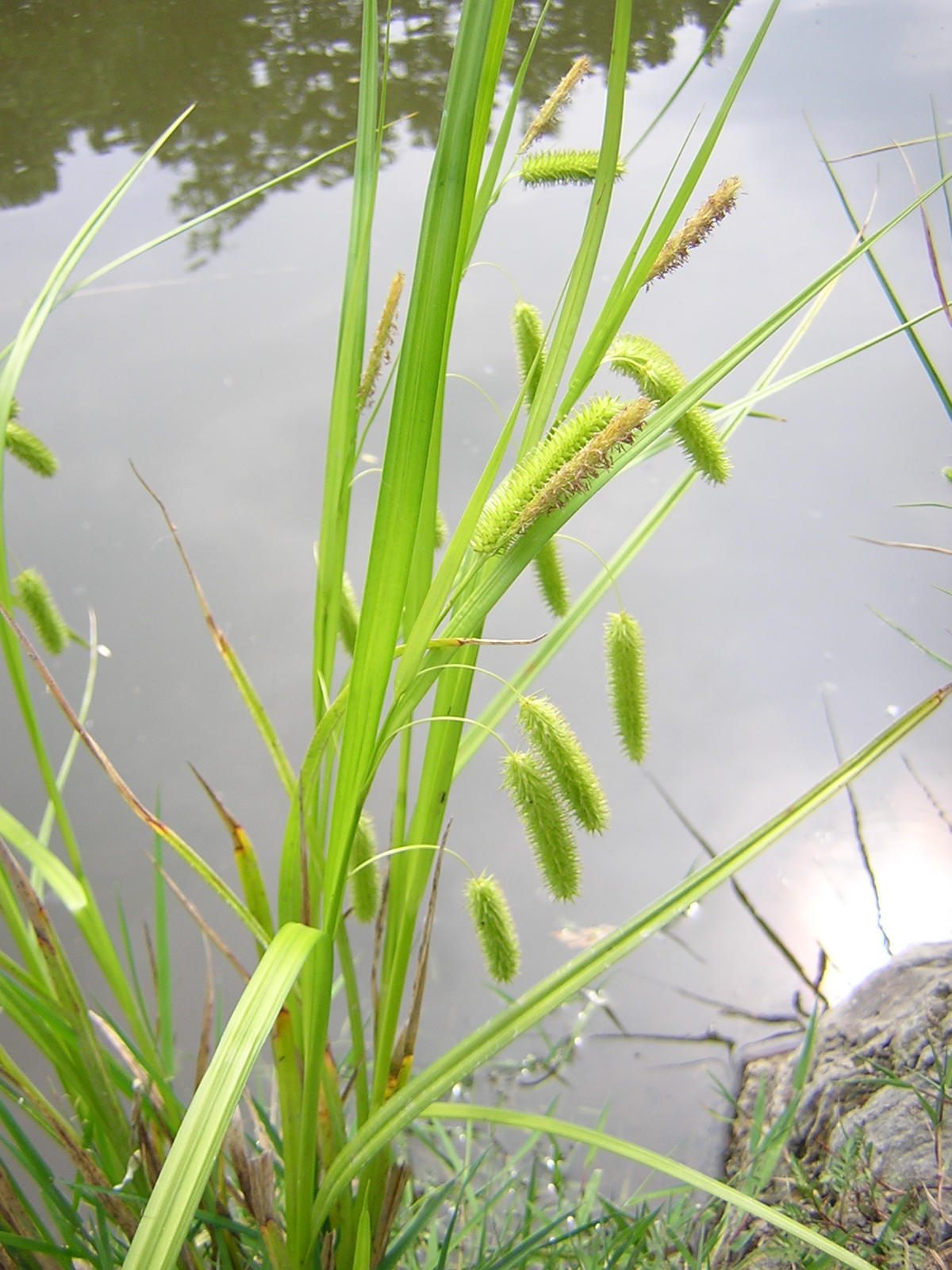 Carex pseudocyperus Author : A. Roche Source : own work